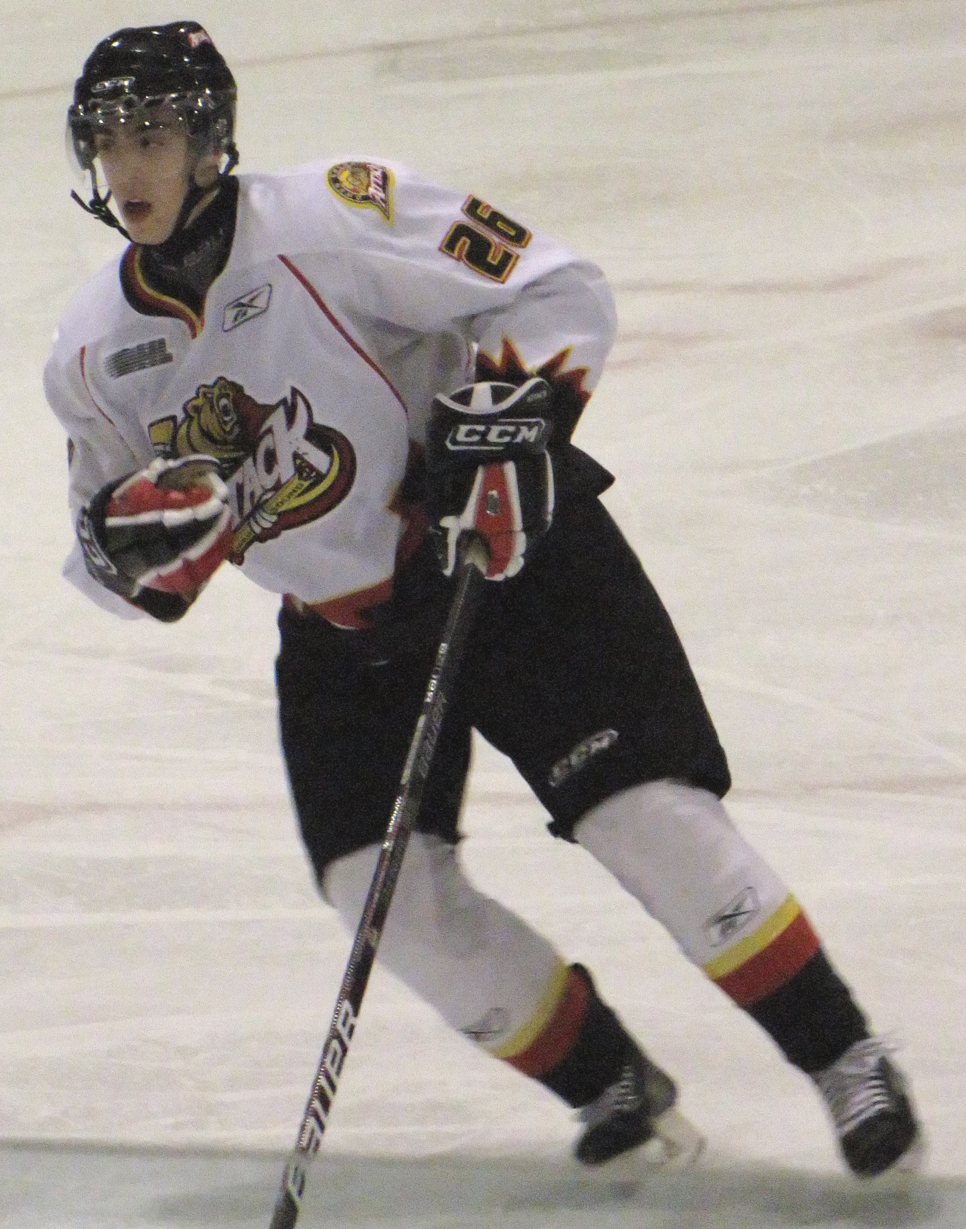 Geoffrey Schemitsch of the Owen Sound Attack